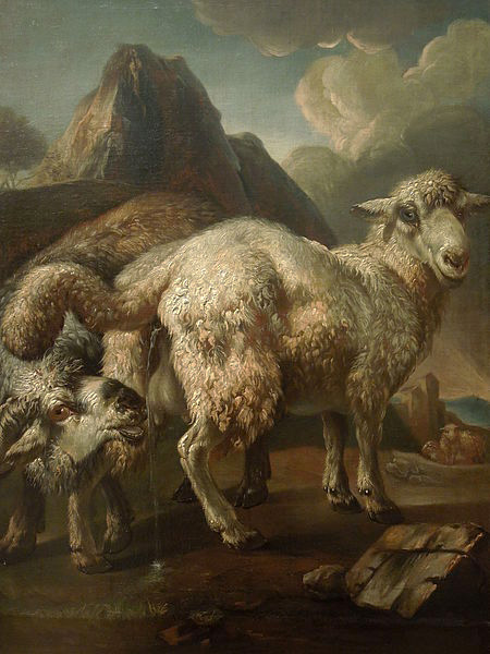 Philipp Peter Roos - Sheep and Ram, 1690, oil on canvas